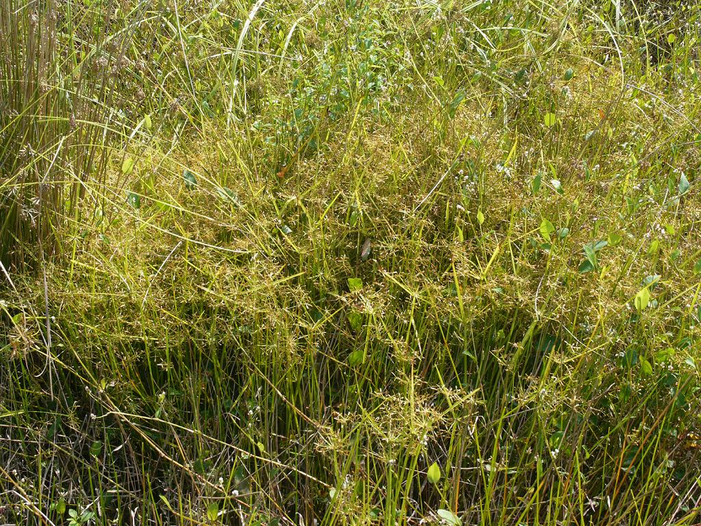 Cyperus haspan(Cyperaceae) Japanese name:Koazegayaturi：コアゼガヤツリ Date;2009,10.04;Tanabe City, Wakayama prefecture, Japan Author;Keisotyo